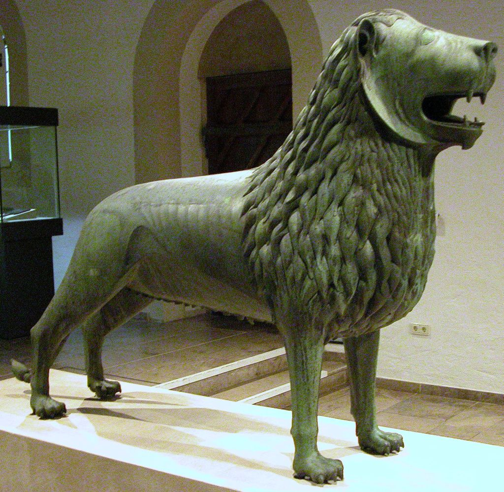 The original Brunswick Lion sculpture (hosted inside Dankwarderode Castle, Brunswick, since 1989; see Braunschweiger Löwe).